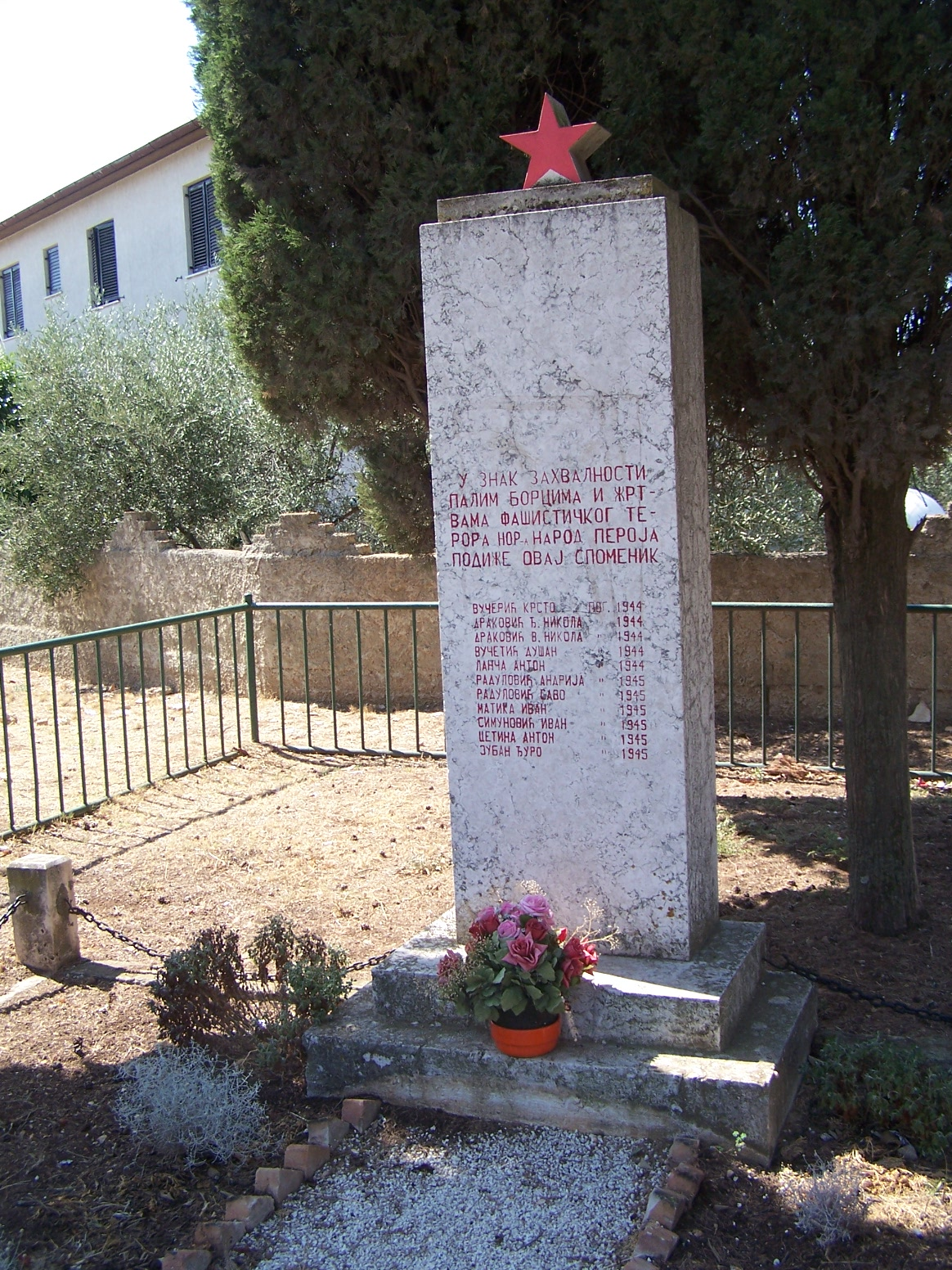 Memorial to Soldiers